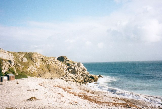 Church Ope Cove Portland Just about the only beach on the Isle of Portland, this small pebbly bay is on the more sheltered east coast.